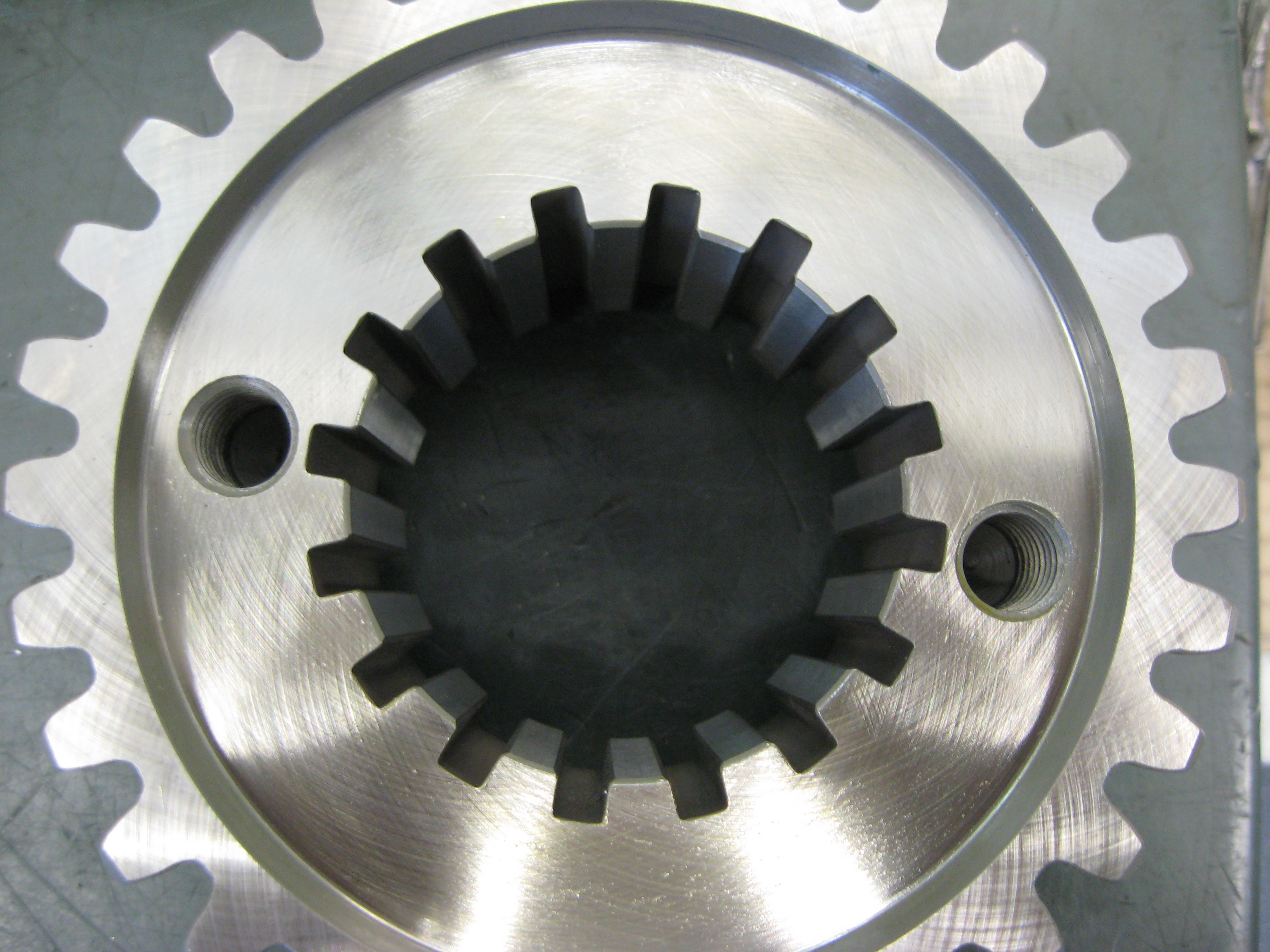 Gear wheel with internal spline profile